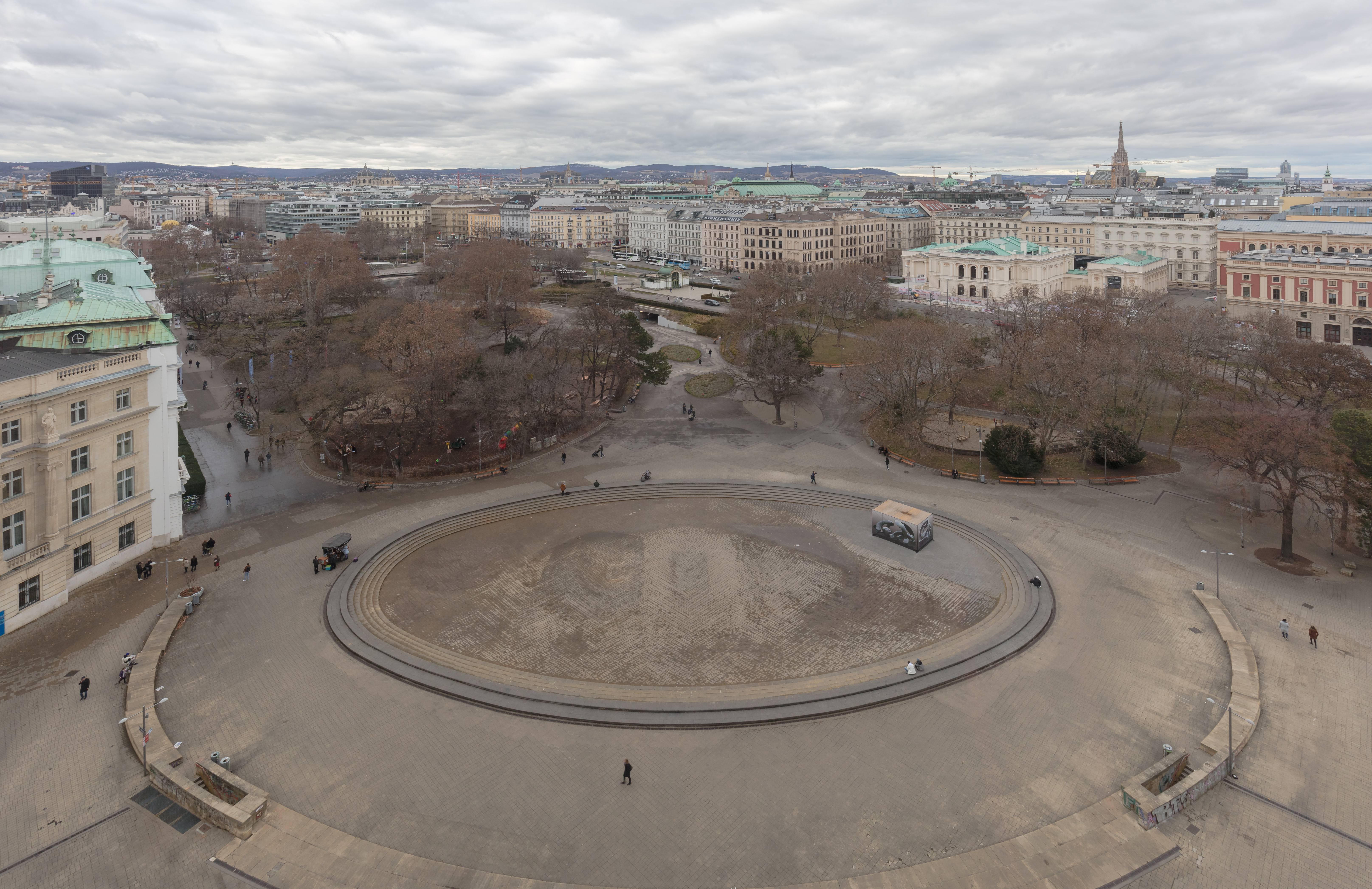 St Charles Square, Vienna, Austria